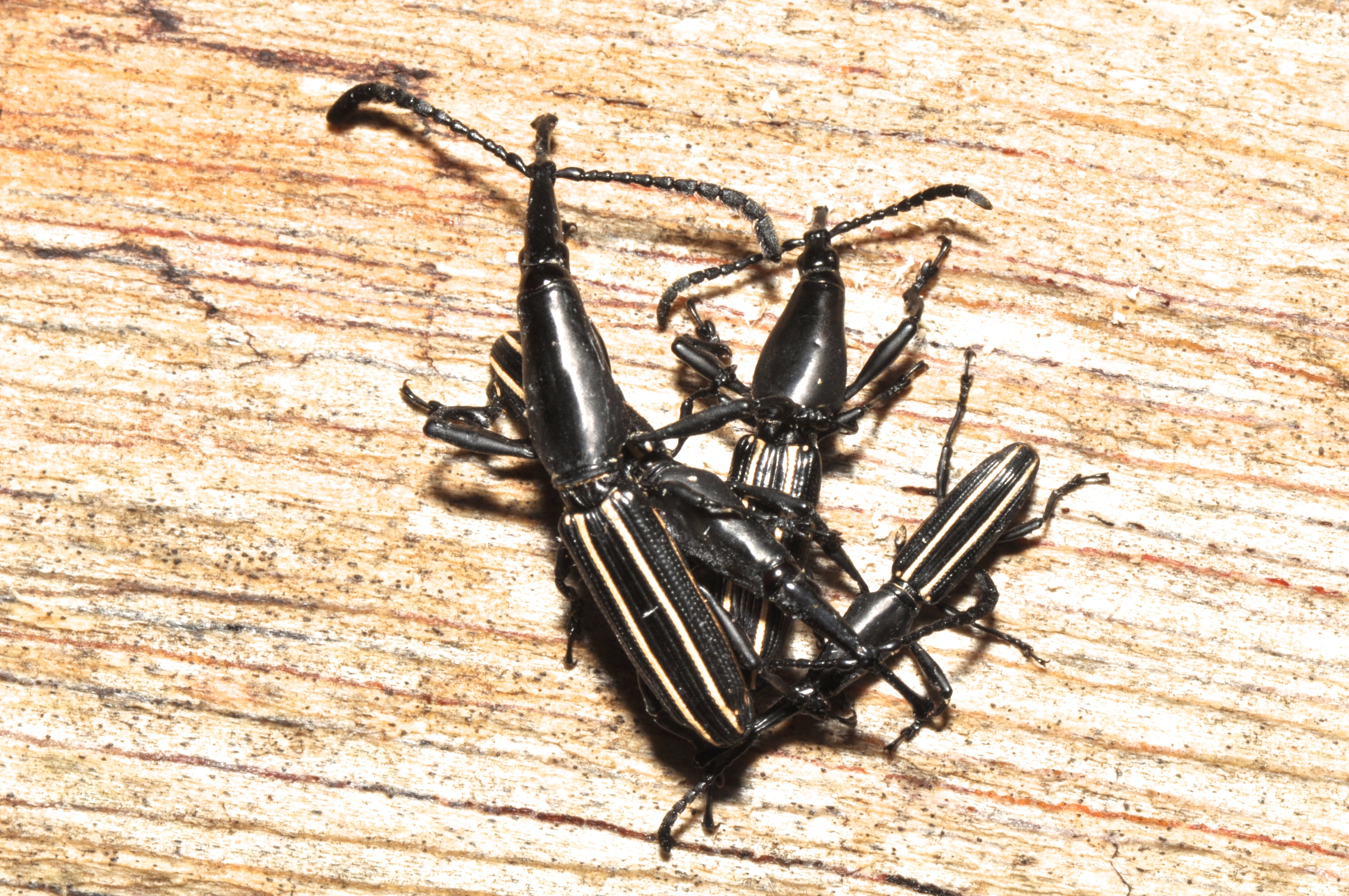 Thanks to Bernard Dupont for ID